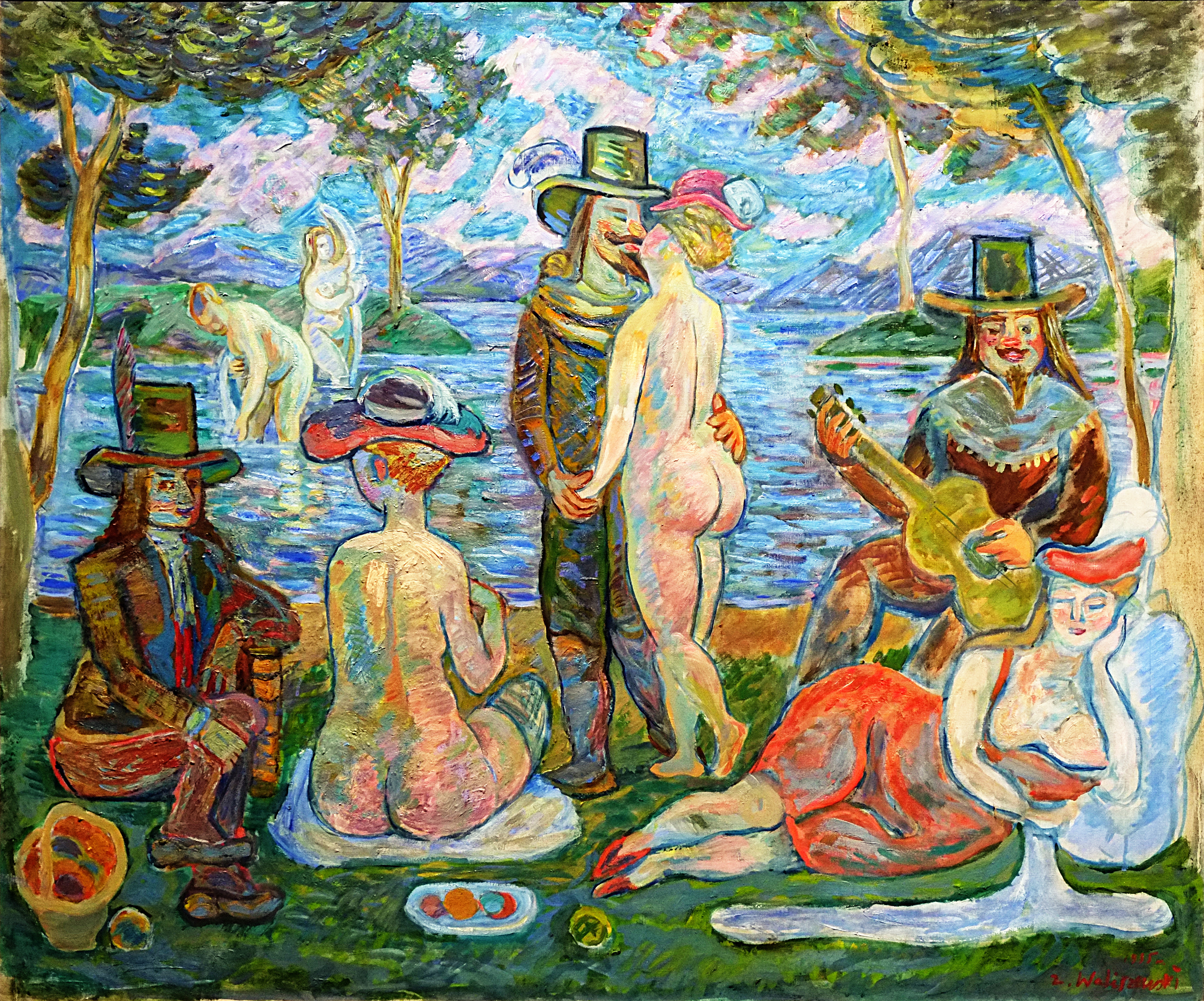 Wyspa miłości (en: Island of love), oil on canvas, 90 x 127,5, National Museum in Warsaw